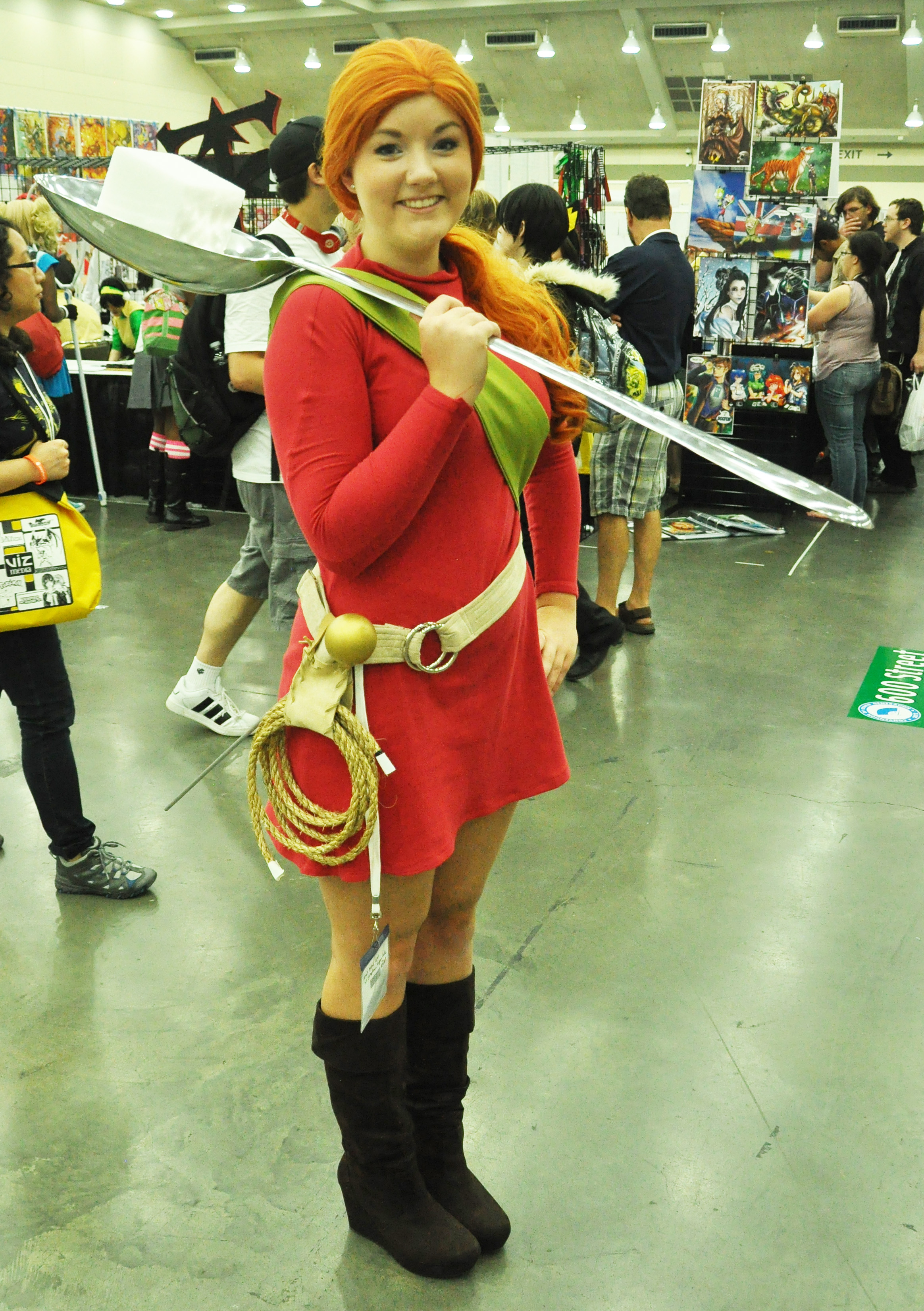 Cosplay of Arrietty (from The Secret World of Arrietty/The Borrower Arrietty or Kari-gurashi no Arietti, based on the book series The Borrowers) at Otakon 2012.